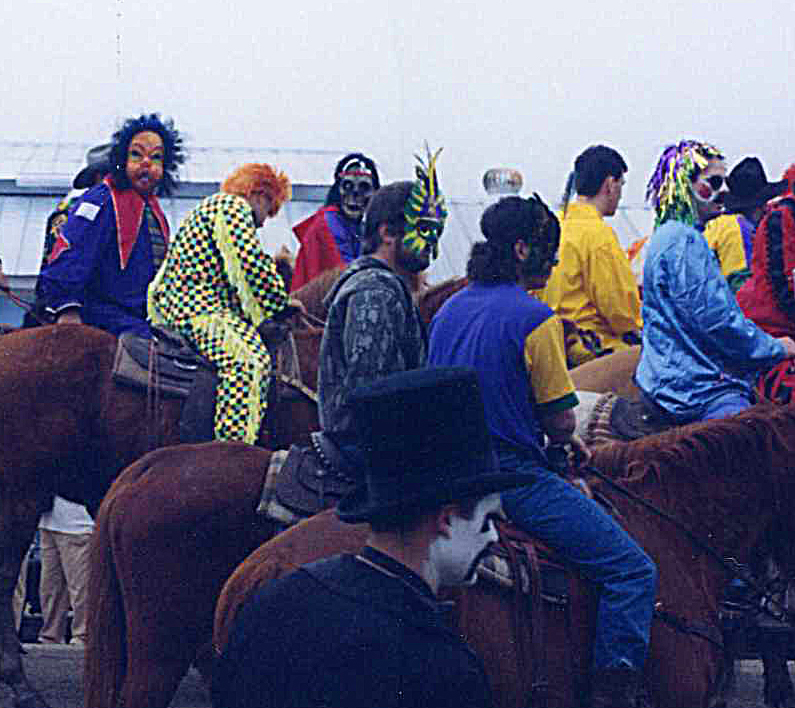 Courir de Mardi Gras, Mamou, Louisiana. Costumed horse riders.